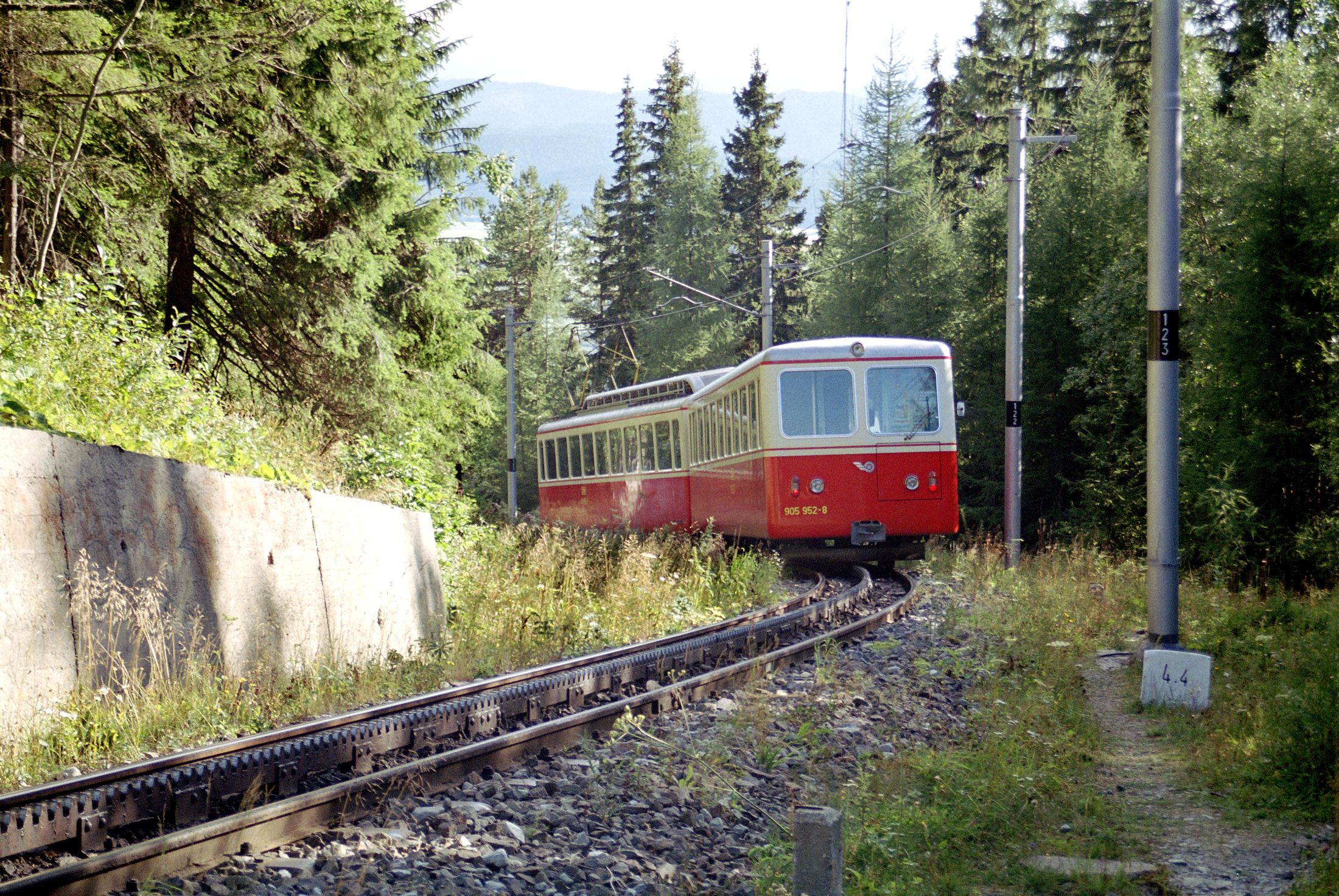 Multiple unit 405.95 of the rack railway Štrba–Štrbské Pleso, near the trainstation Štrbské Pleso driving down to Štrba